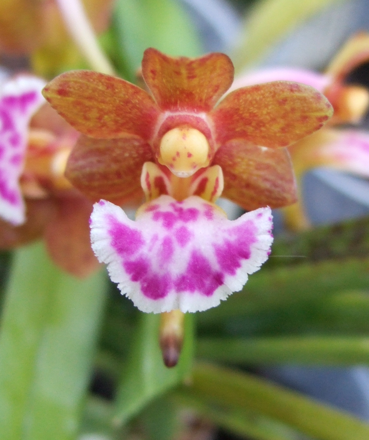 Aerides flabellata flower